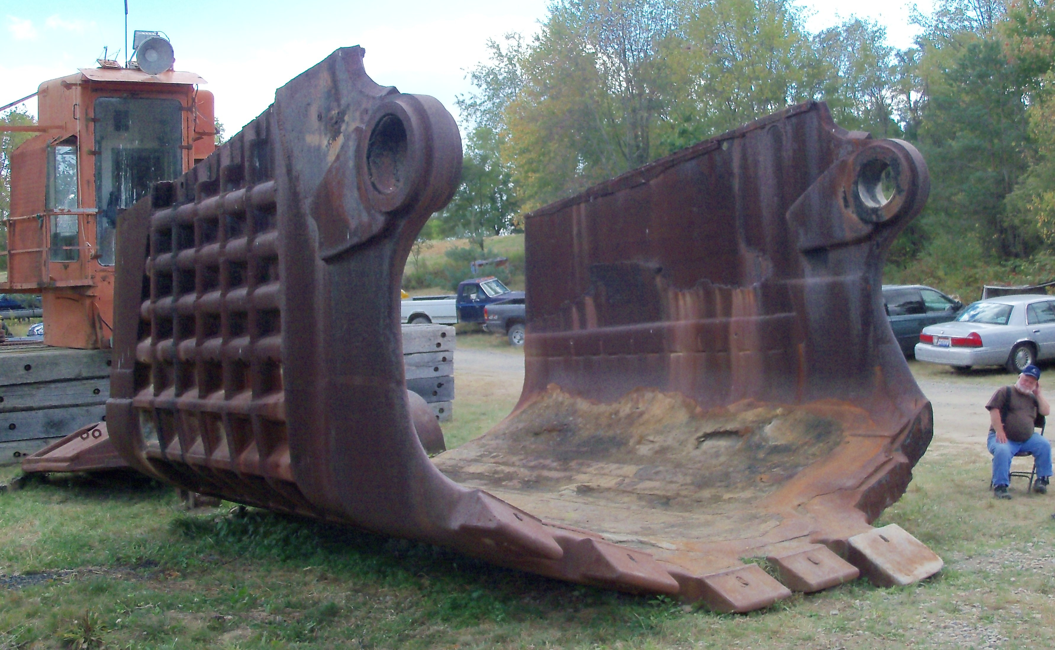 Bucket and operators cab from mining equipment called The Silver Spade on Stumptown Road west of New Athens, Ohio.